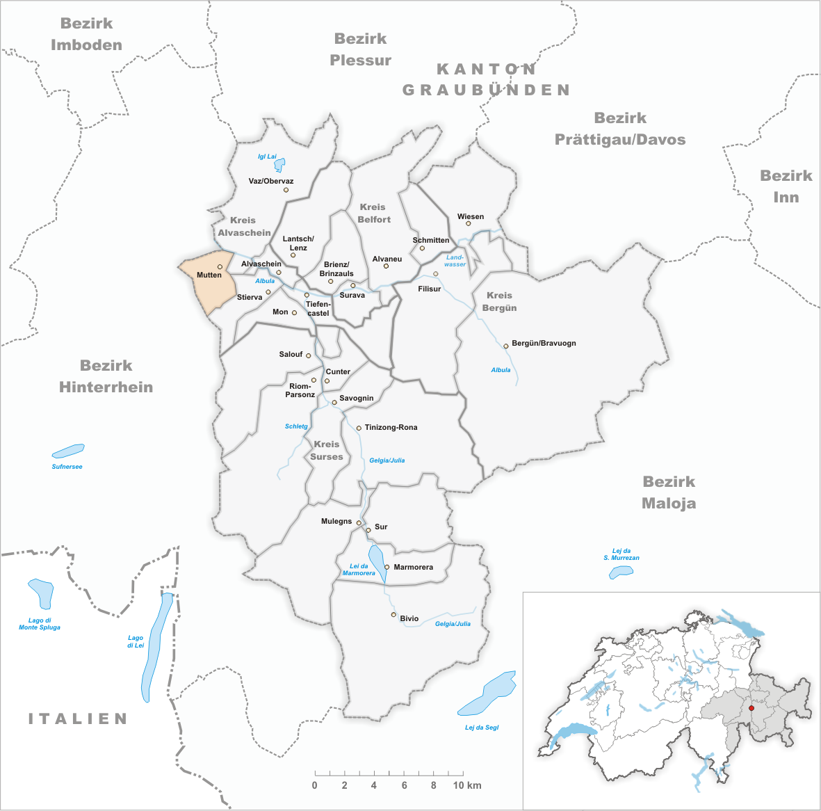 Municipality Mutten